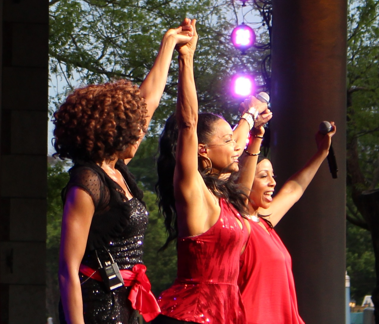 En Vogue performs at Epcot Flower and Garden Festival in March 2015